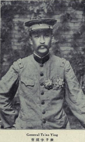 Cao Ying, Zizhen (1872 - 1926)